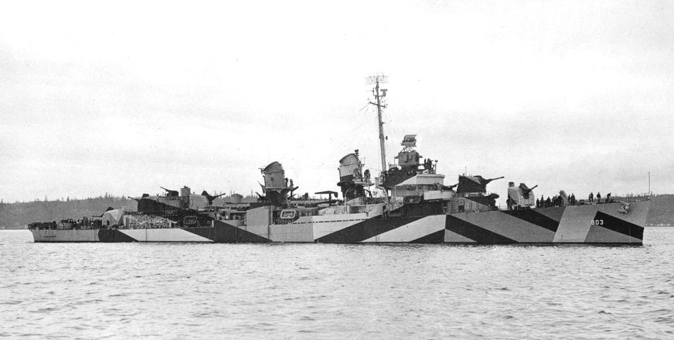 The U.S. Navy destroyer USS Little (DD-803), circa in late 1944. The ship is painted in Camouflage Measure 31, Design 16D.